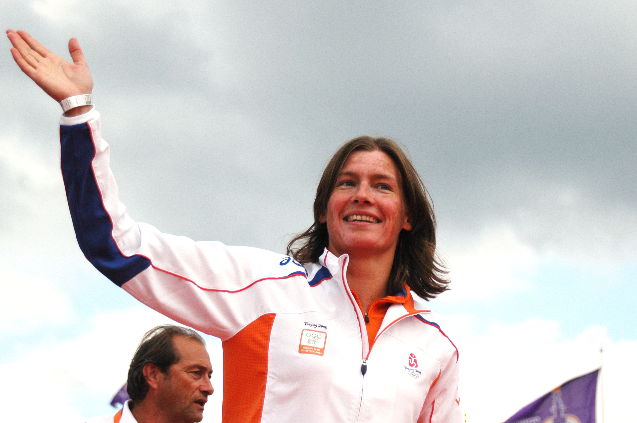 Edith van Dijk at the Olympic welcome in the Olympic Stadium in Amsterdam, the Netherlands.